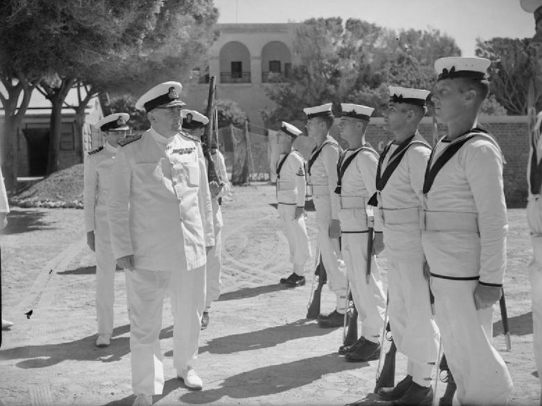 IWM caption : Admiral Sir Henry Harwood, KCB, OBE, Commander-in-Chief, Mediterranean, inspecting naval ratings at HMS CANOPUS, Alexandria.